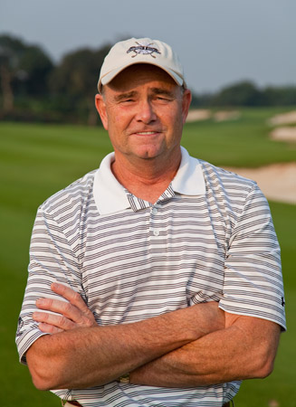 Headshot of Schmidt-Curley Design Owner Brian Curley.